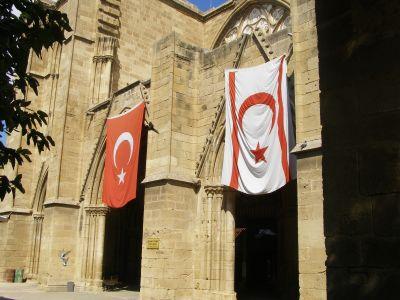 The Cami Selimiye mosque (former St Sophia's Catholic cathedral) in Nicosia, Cyprus - northern (Turkish) part